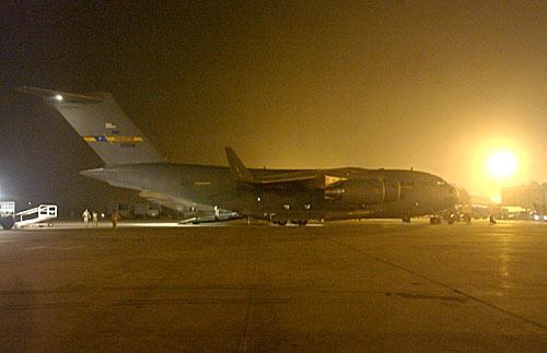 U.S. servicemembers load a U.S. Air Force C-17 aircraft on Chaklala Air Base, Pakistan, in support of earthquake relief efforts, Oct. 17, 2005. The aircraft is deployed from Charleston Air Force Base, S.C. The U.S. military is providing aid to Pakistan, which was devastated by an Oct. 8 earthquake.